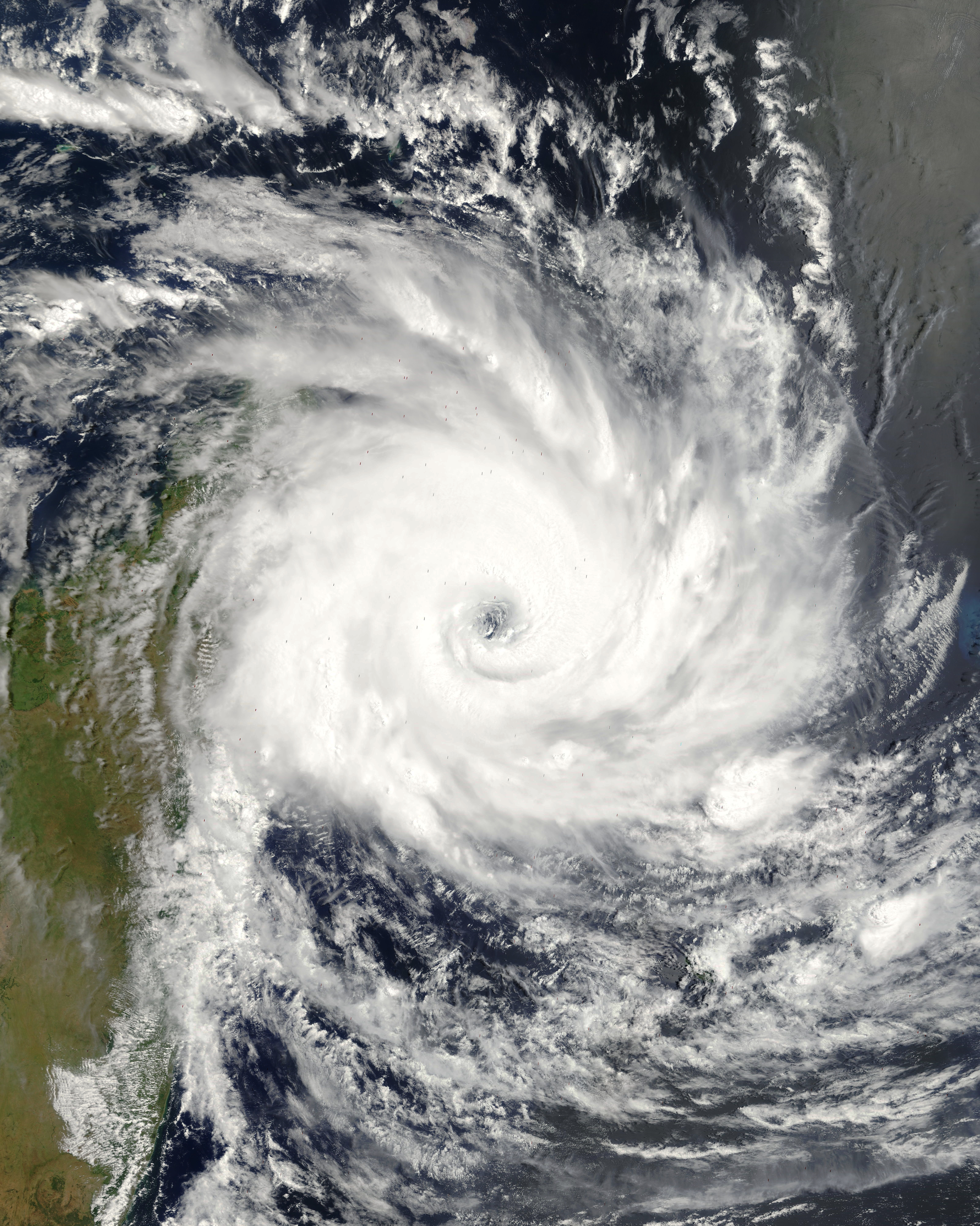 Tropical Cyclone Ivan seen from Terra satellite at 0645Z Feb 16, 2008